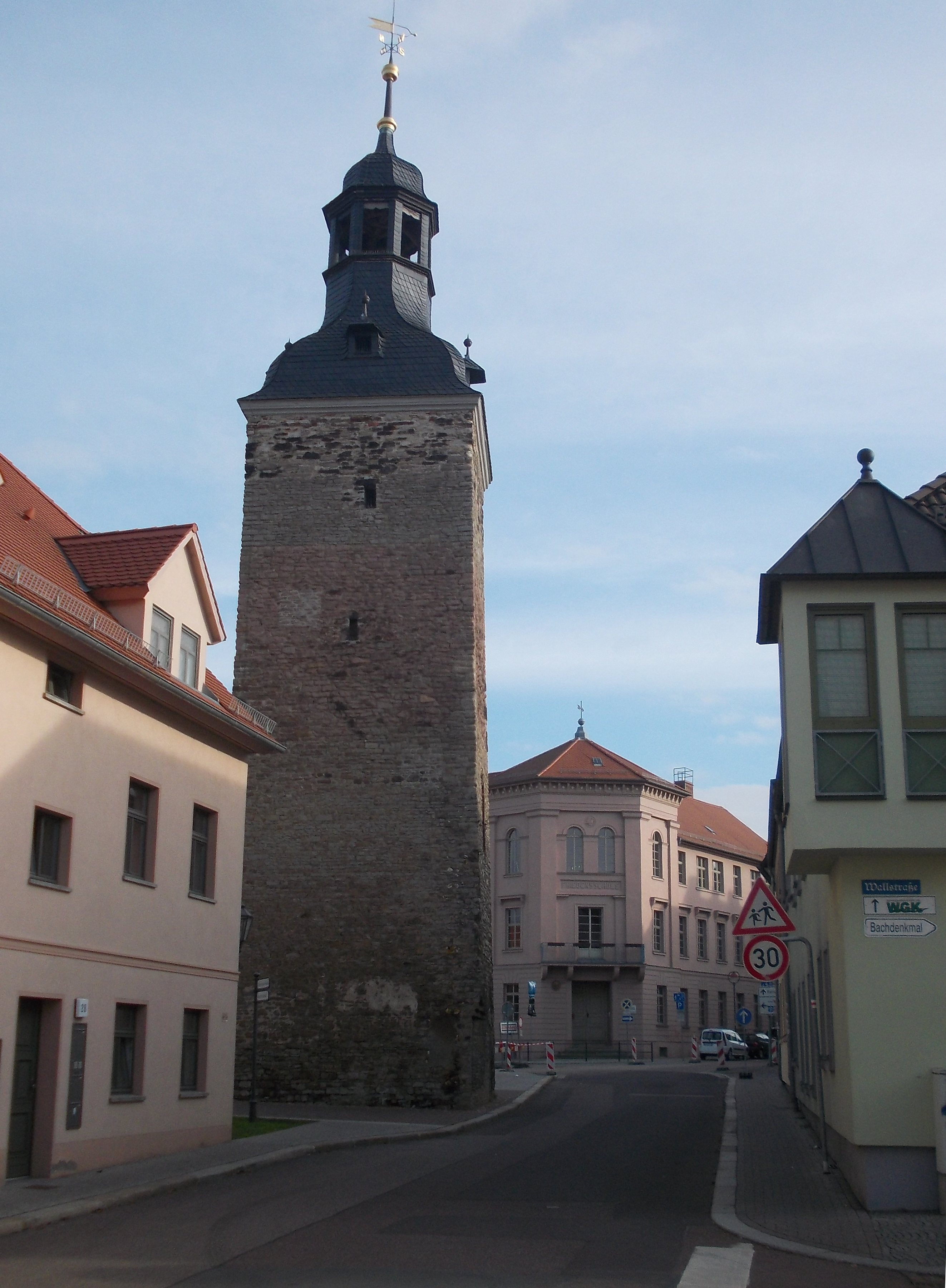 Magdeburg Tower in Köthen (Anhalt-Bitterfeld district, Saxony-Anhalt), with the Peace School in the background